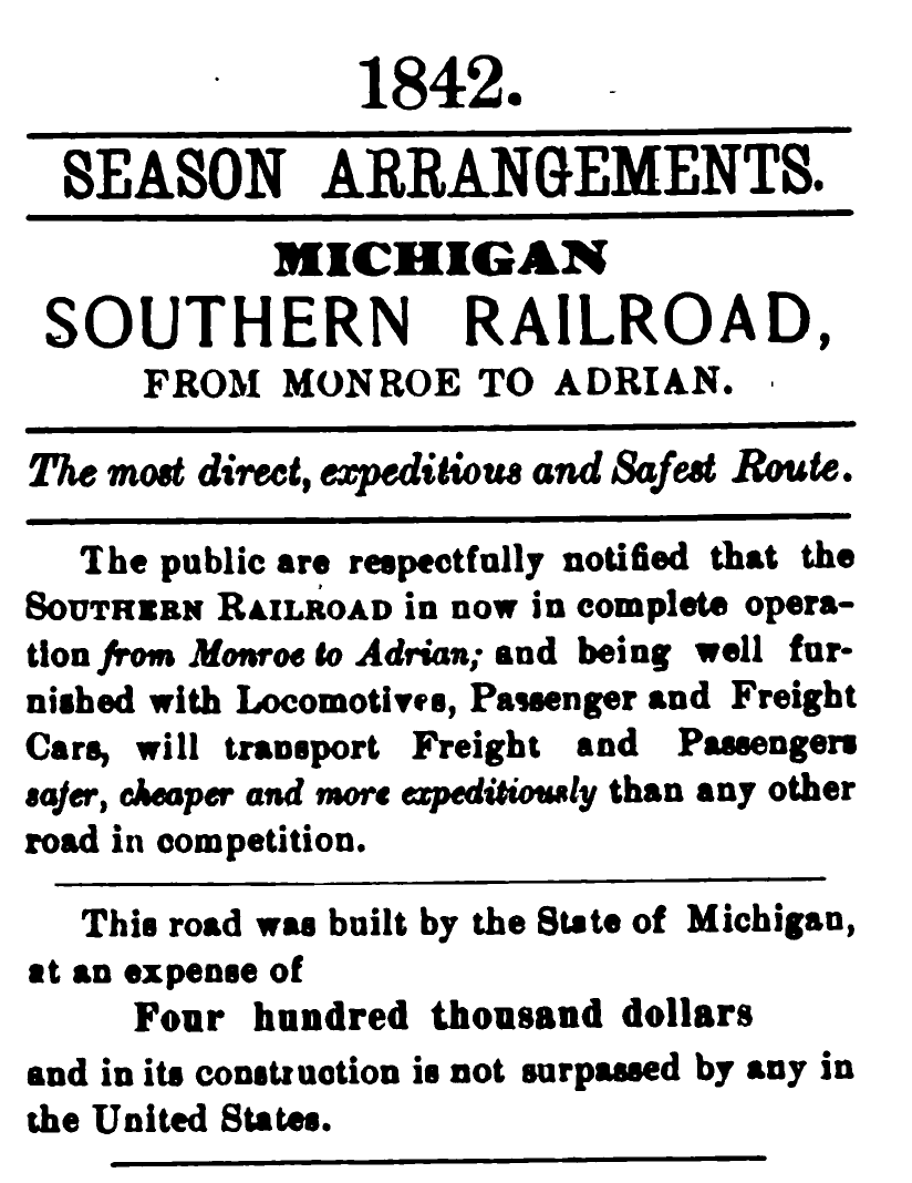 Cropped version of :Image:Michigan southern line.png.